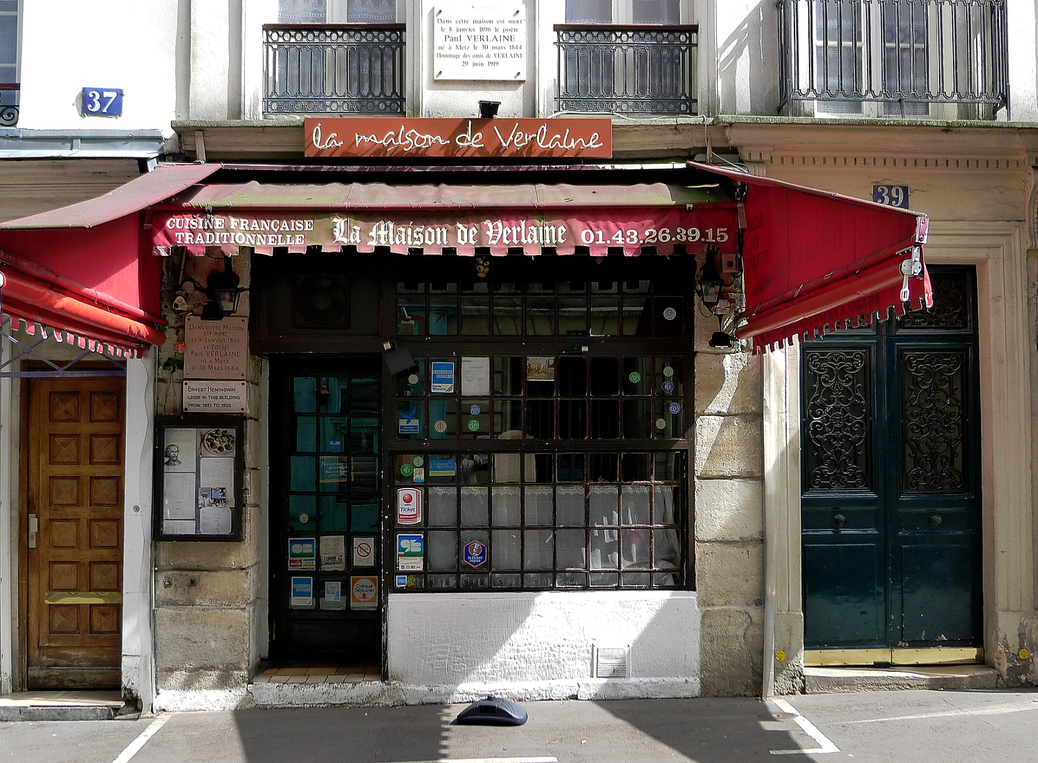 Descartes street - Paris